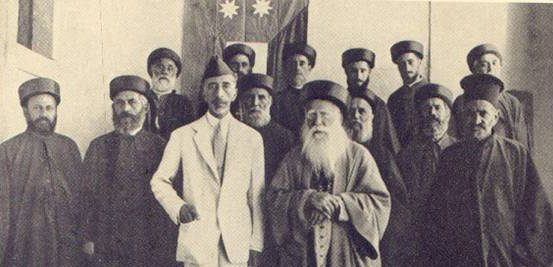 King Faisal I with Chaldean bishops (1852 1947)